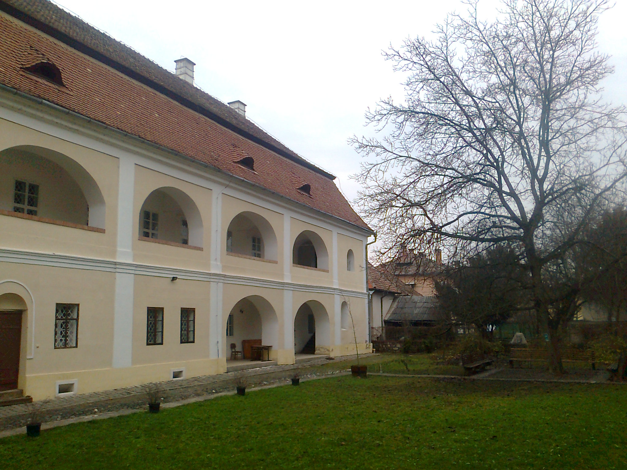 Courtyard of Teleki-Bolyai Museum (Târgu Mureș)